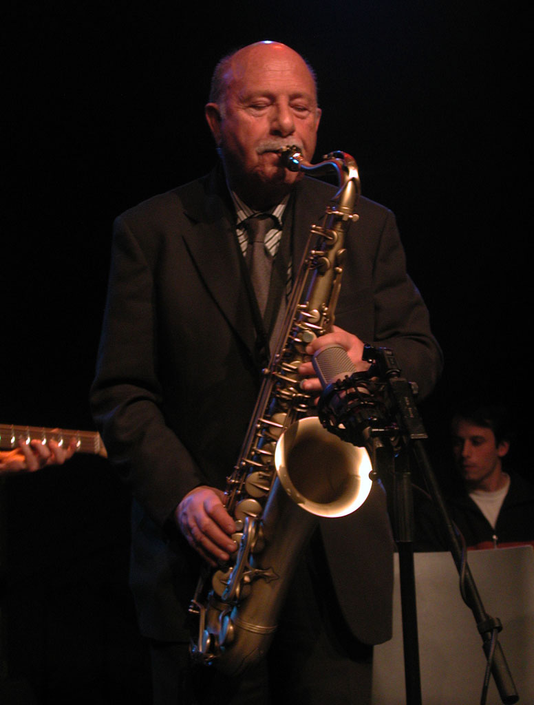 Hans Salomon, in Vienna, Austria ("Porgy & Bess" jazz club)